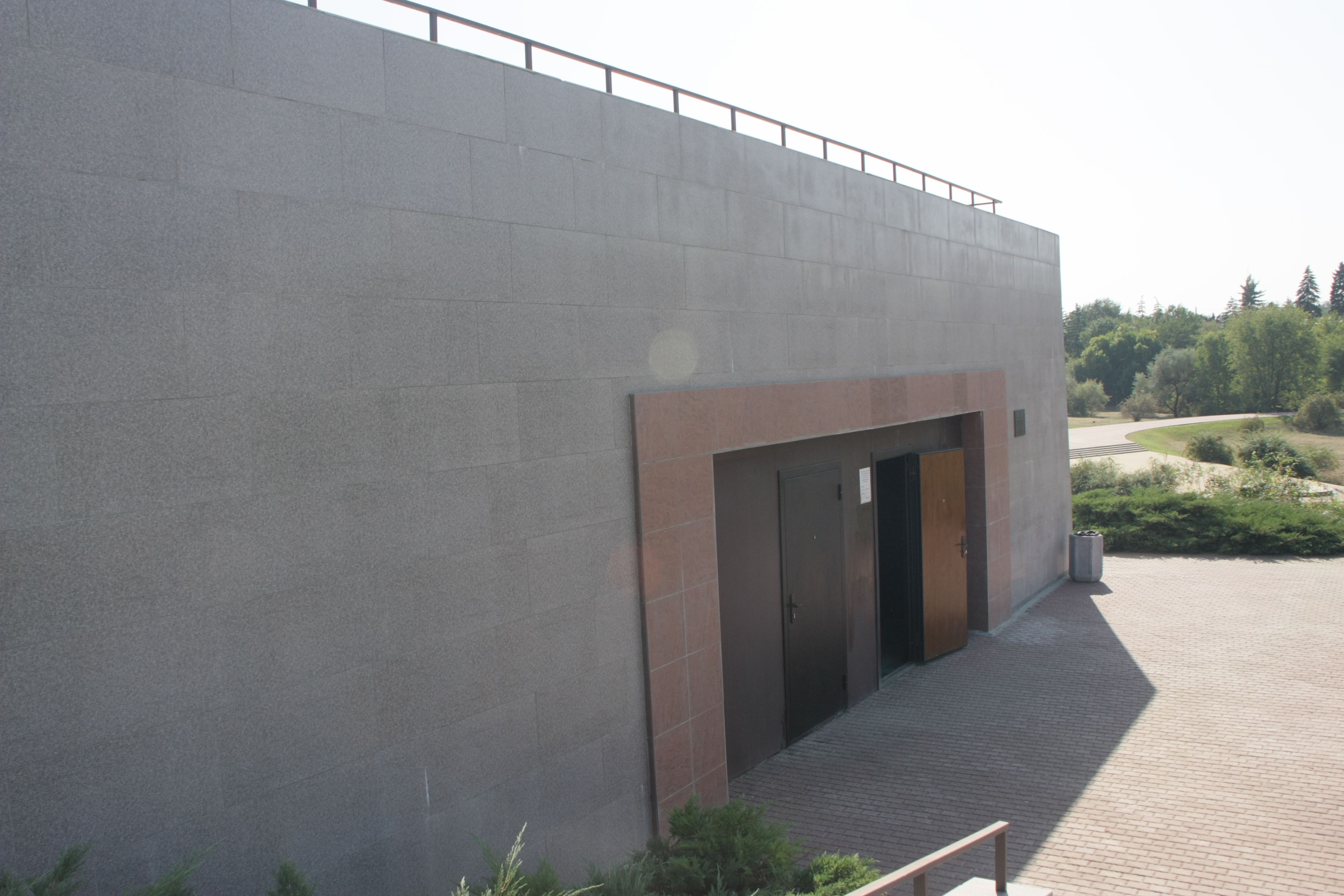 Entrance